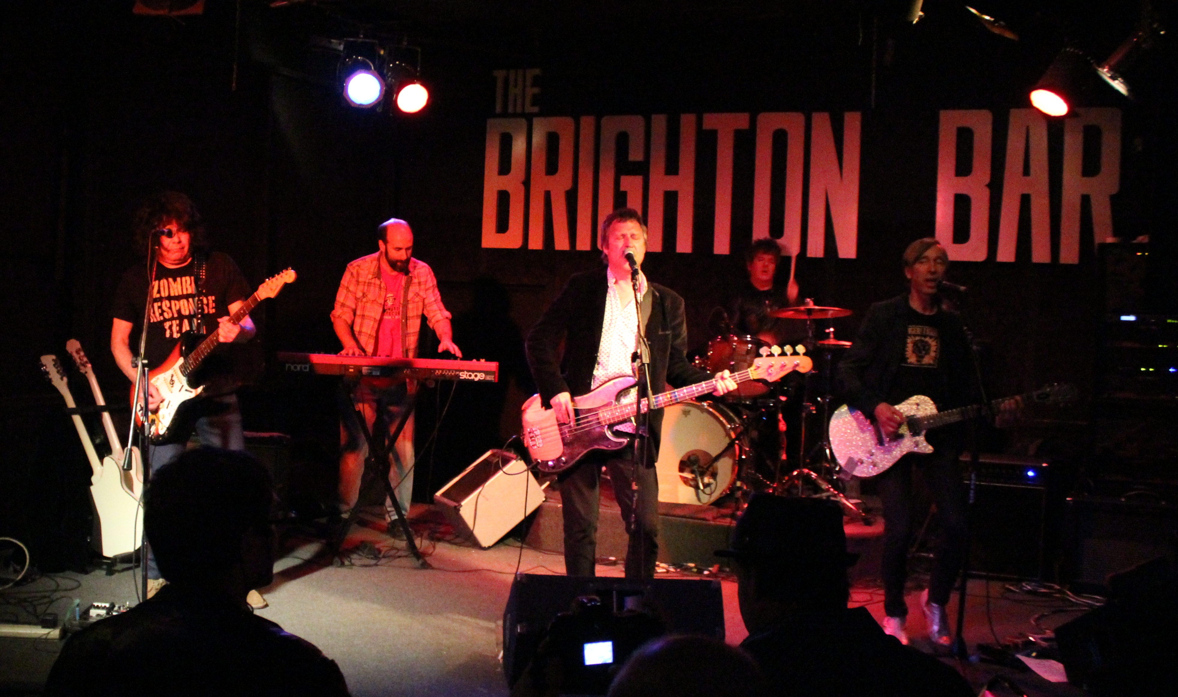 The Split Squad performing at The Brighton Bar, Long Branch, New Jersey, on April 28, 2014. From left to right, Eddie Munoz, Josh Kantor, Michael Giblin, Clem Burke, and Keith Streng